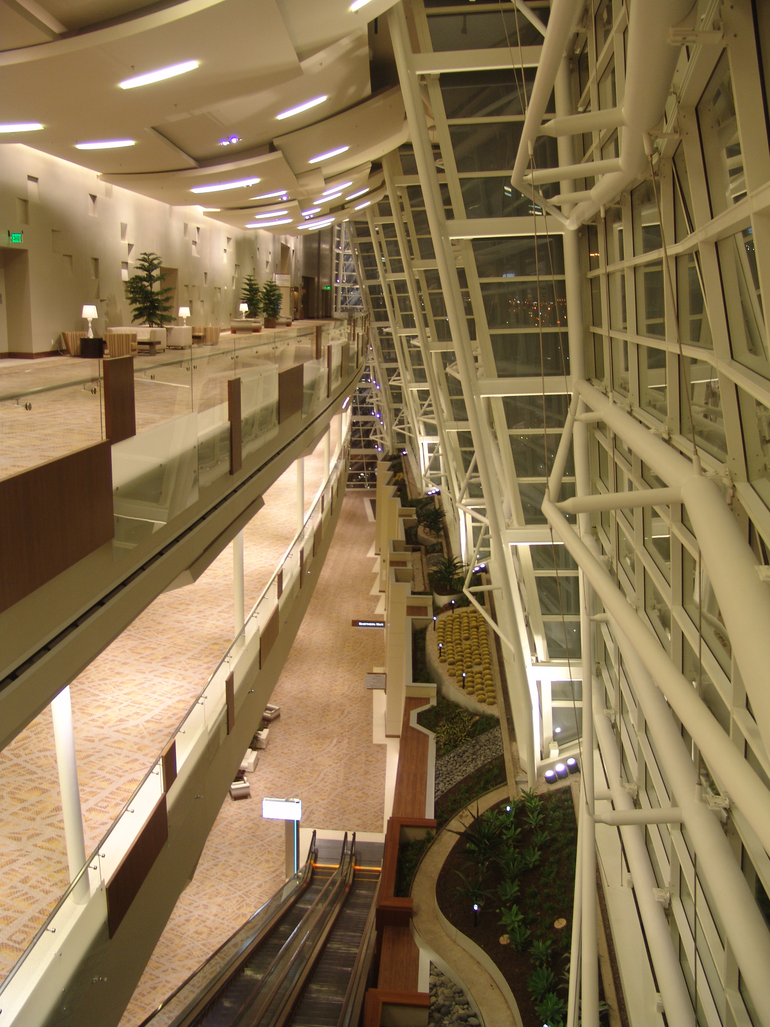 Sloped garden from the third level of the Aria convention center in Las Vegas, Nevada.